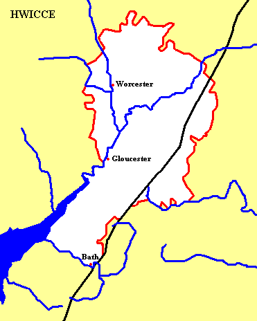 Kingdom of the Hwicce. I created this image myself.